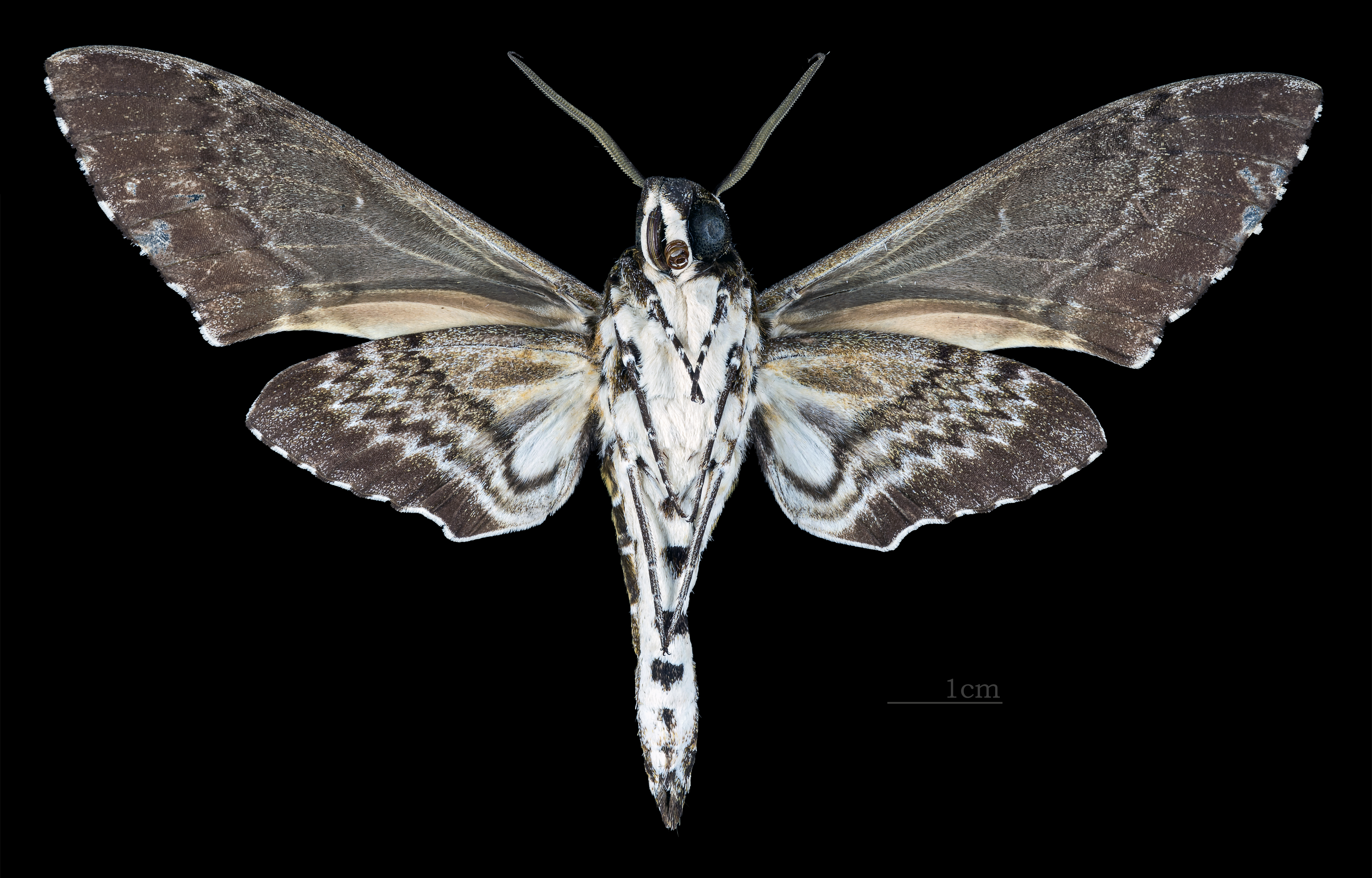 Manduca sesquiplex - △ Ventral side Collection of the Mathematician Laurent Schwartz